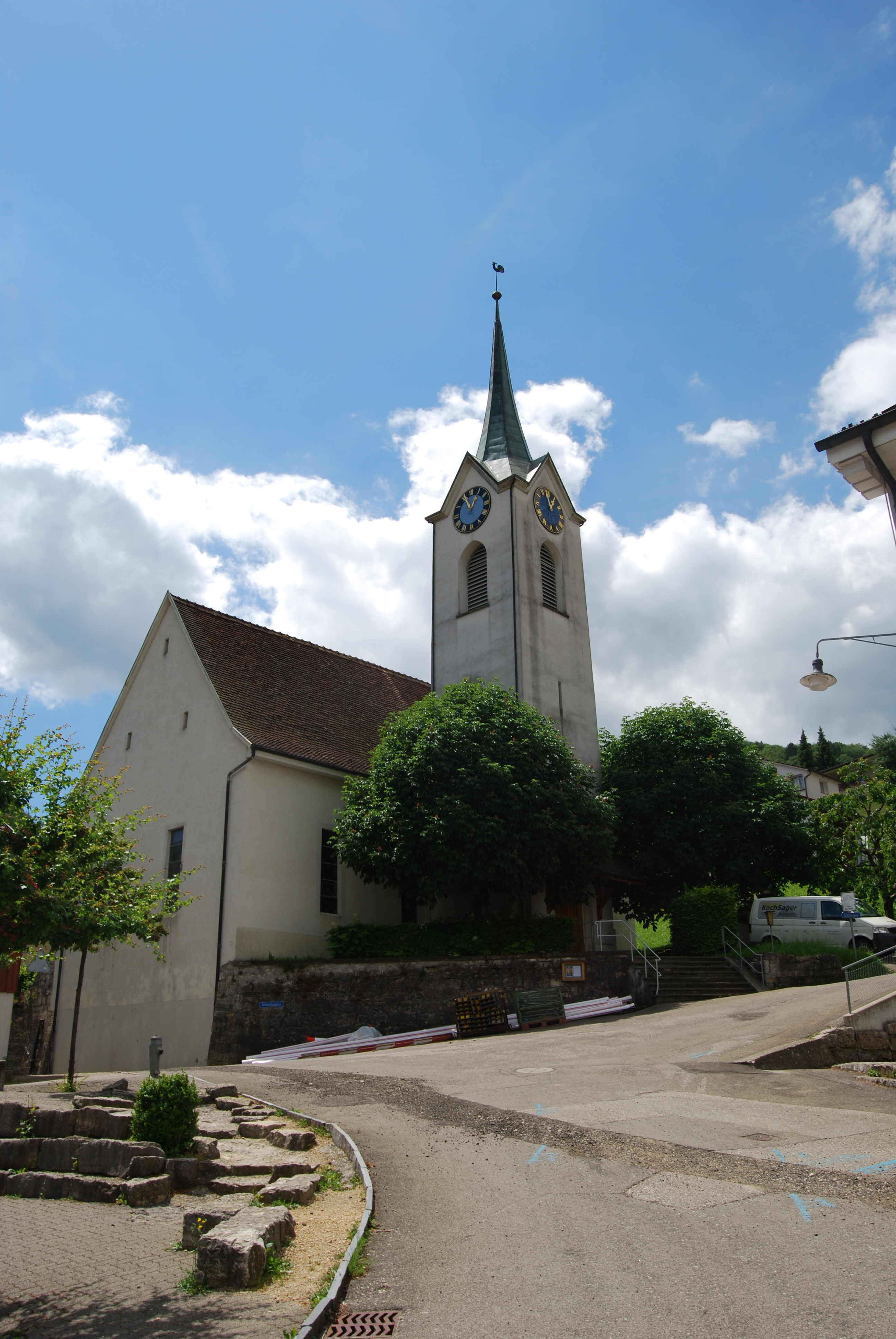 Church of Eptingen, canton of Basel-Country, Switzerland